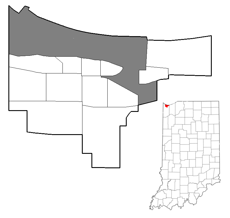 Map of neighborhood locations in the City of Gary, Indiana